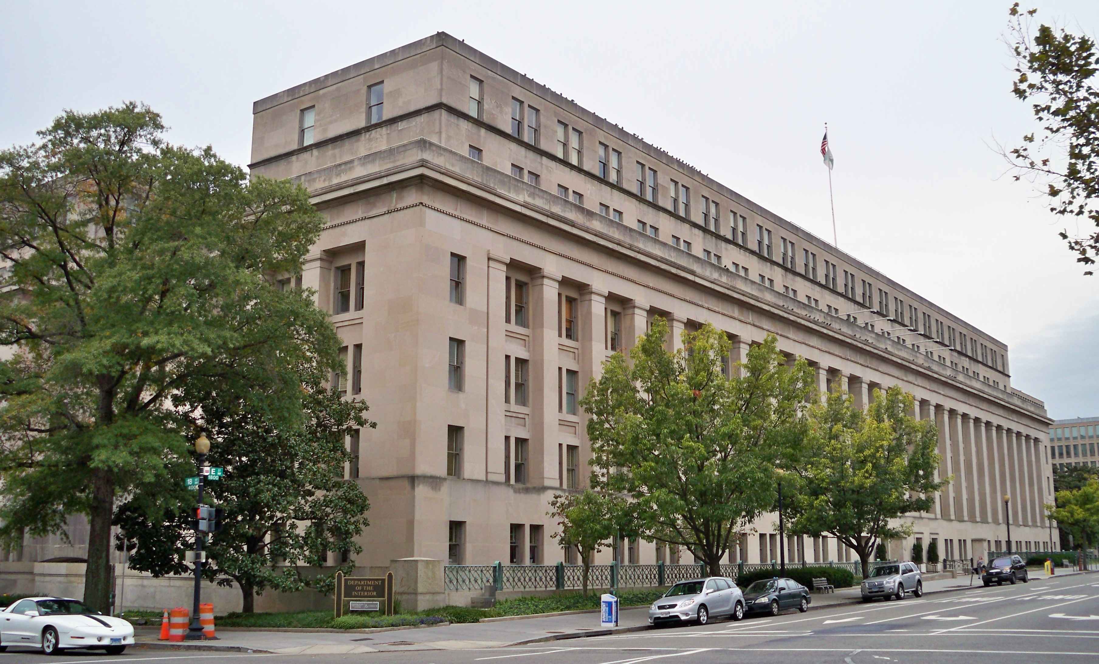 Exterior shot of the United States Department of the Interior in Washington, DC.